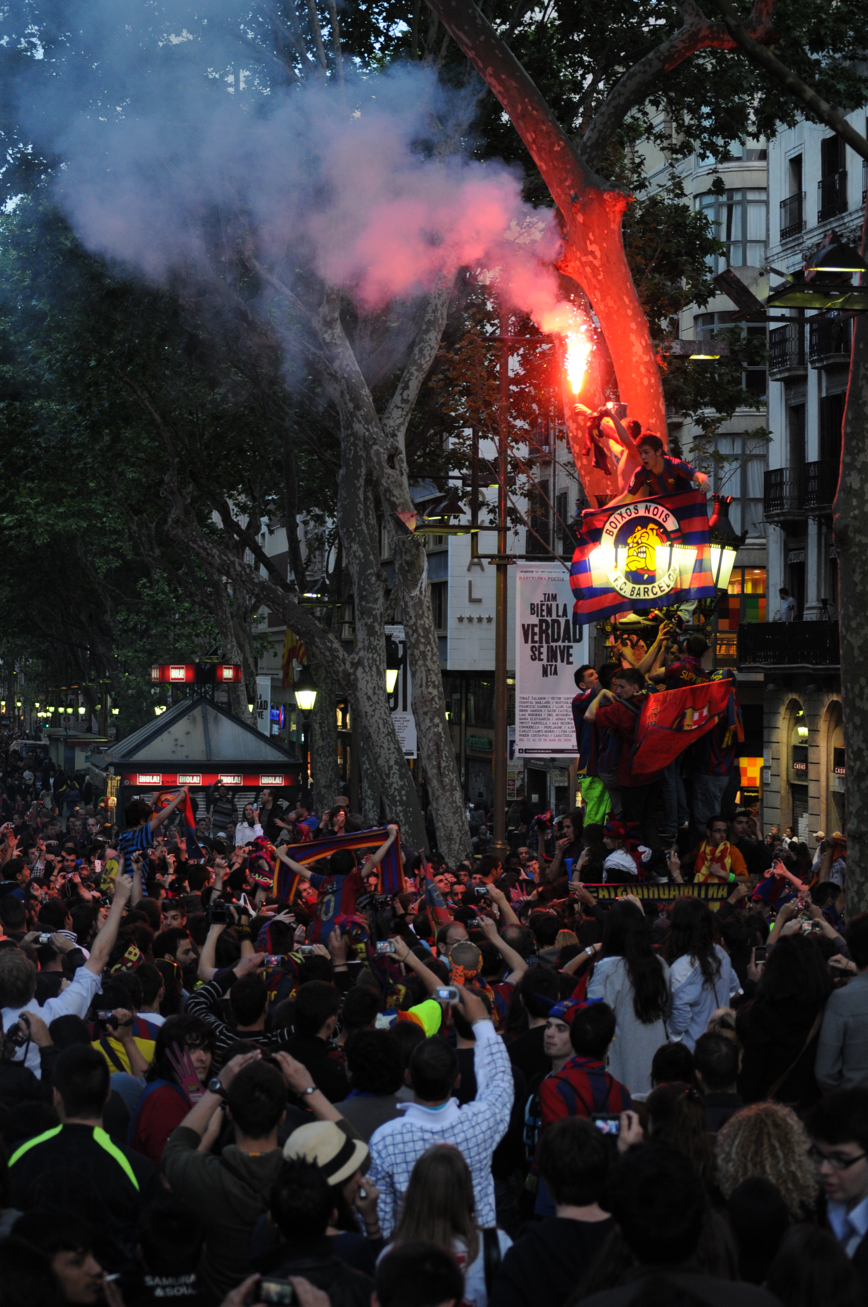 Barcelona, Las Ramblas, Celebración de la victoria del Barça en la Liga 2009-2010